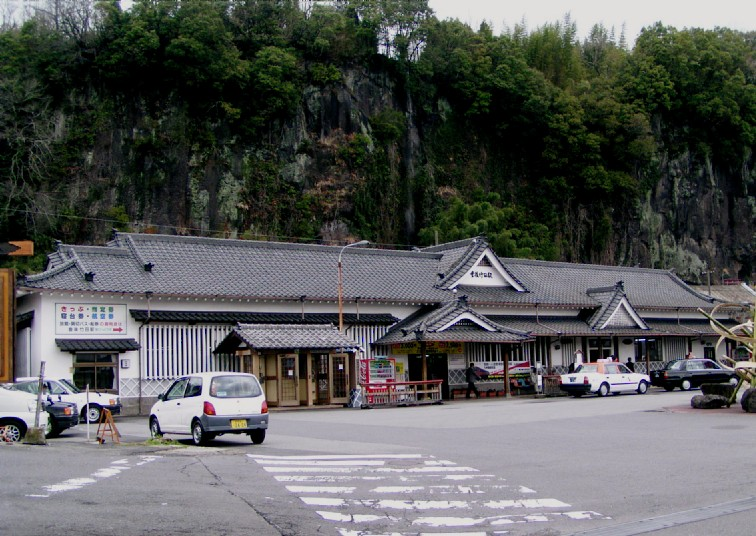 Bungo-Taketa Station, Taketa City, Oita, Japan